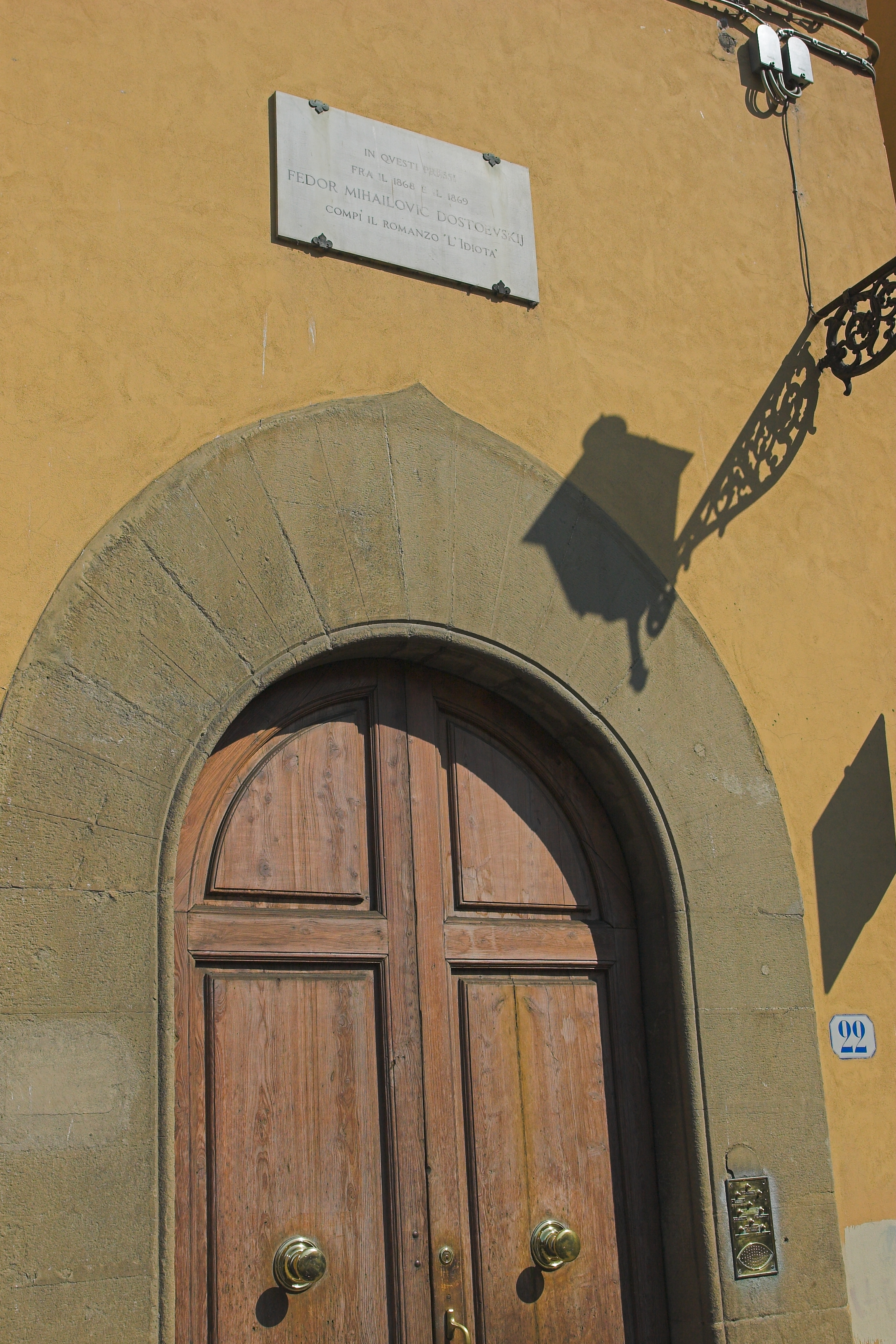 A plate on the house where Dostojevski wrote the "Idiot" in Florence, Italy. The house is located just opposite of Palazzo Pitti.